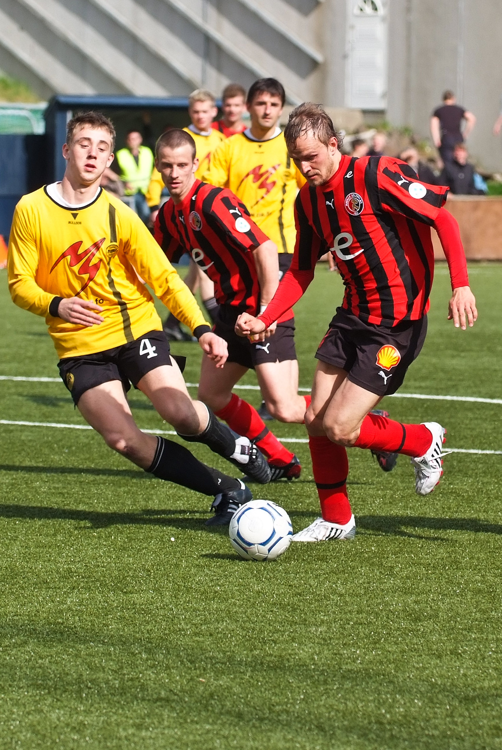 HB won 3-0. Christian Høgni Jacobsen (r.) has the ball on his foot to the 3-0.